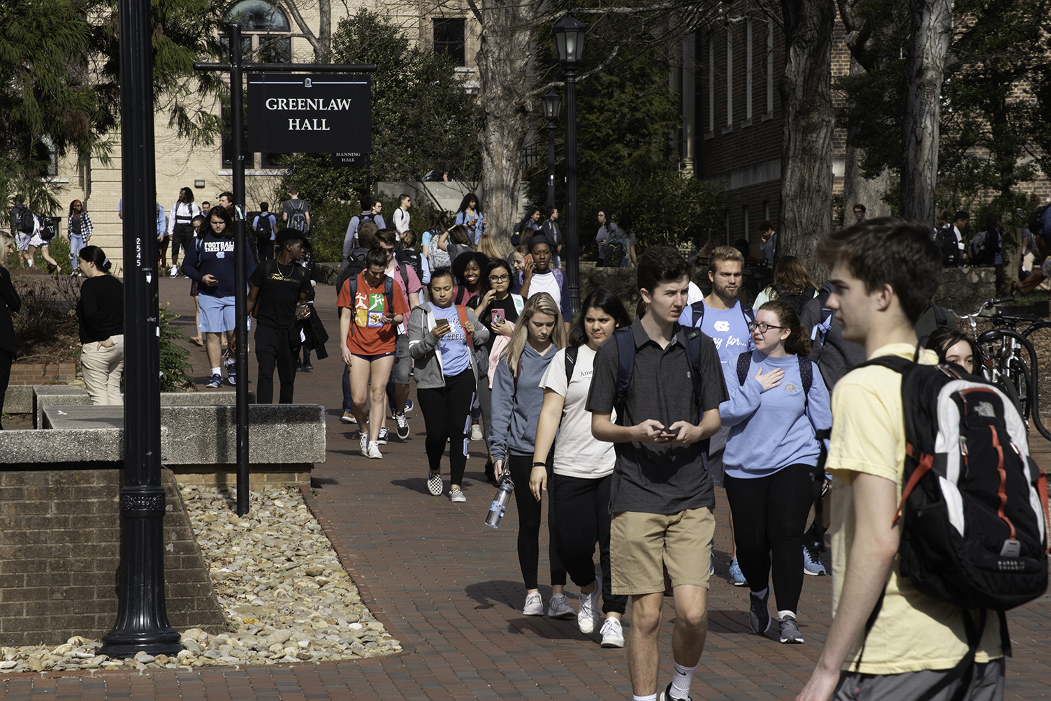 Students at UNC-Chapel Hill walk through campus between classes